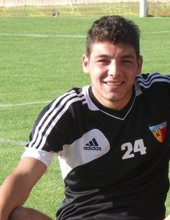 SalihDursun and me i cropped myself